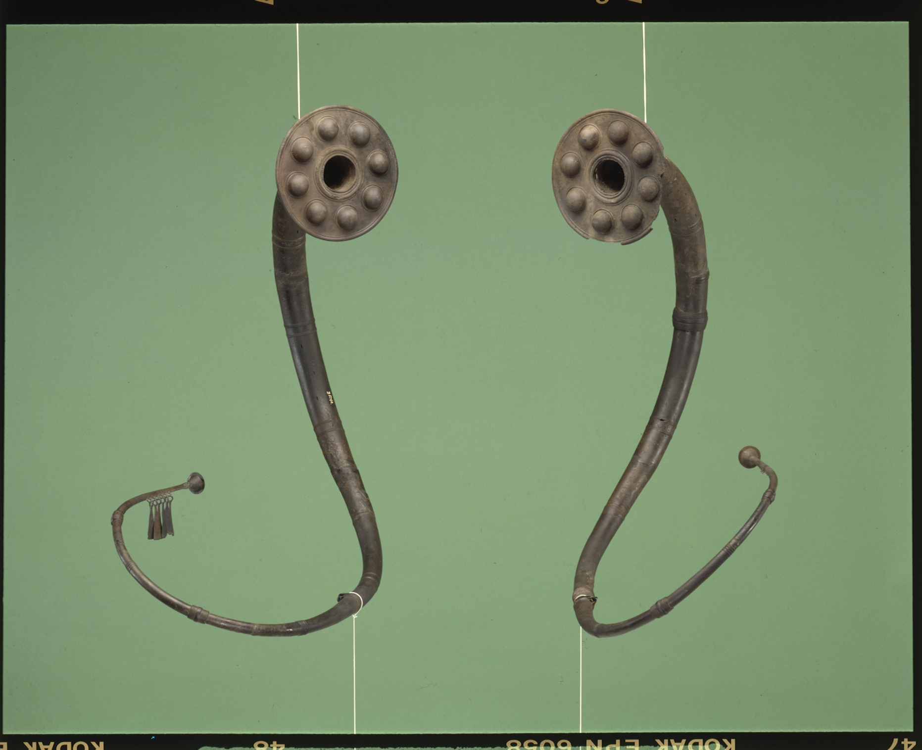 pair of lurs from Radbjerg, Væggerløse sogn. B5790 & B5791